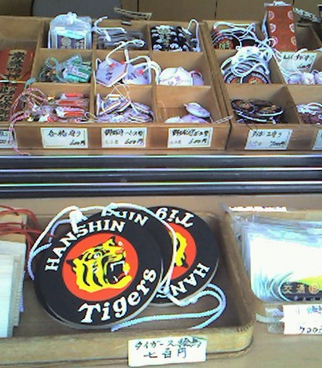 Ema (Shinto) of Susanoh Jinjya (Nishinomiya, Hyōgo, Japan)